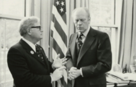 The photo contact sheet, identified as B1911 by the White House Photographic Office (WHPO), is housed at the Gerald R. Ford Presidential Library, a branch of the National Archives and Records Administration (NARA). This file is a 200 dpi photo contact sheet having images from roll of film B1911 of the August 9, 1974 - January 20, 1977 Gerald R. Ford White House Photographic Office Series A0001-A9999 and B0001-B2886 photographs. The date on the photo contact sheet is the date the roll of film was processed, not necessarily the date the photographs were taken. See table below for additional details.